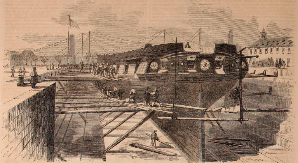 USS Constellation in drydock, Boston - Charlestown